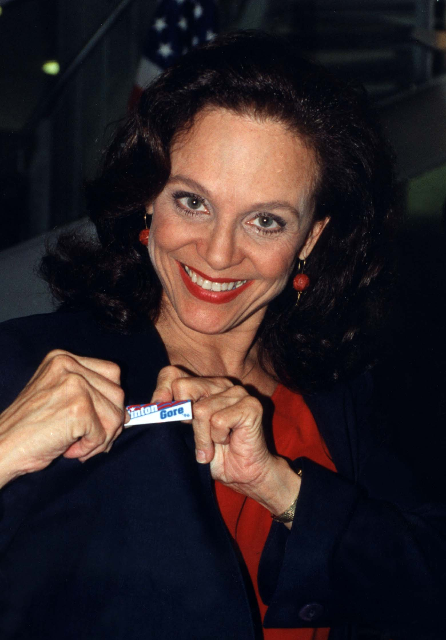 VALERIE HARPER of "RHODA" August 18, 1996 BALTIMORE MARYLAND © copyright John Mathew Smith 2001